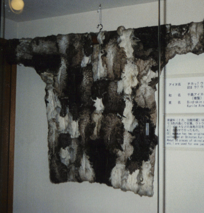 Traditional Ainu coat made of bird skin with feathers. Ainu Museum, City of Shiraoi, Hokkaido, Japan